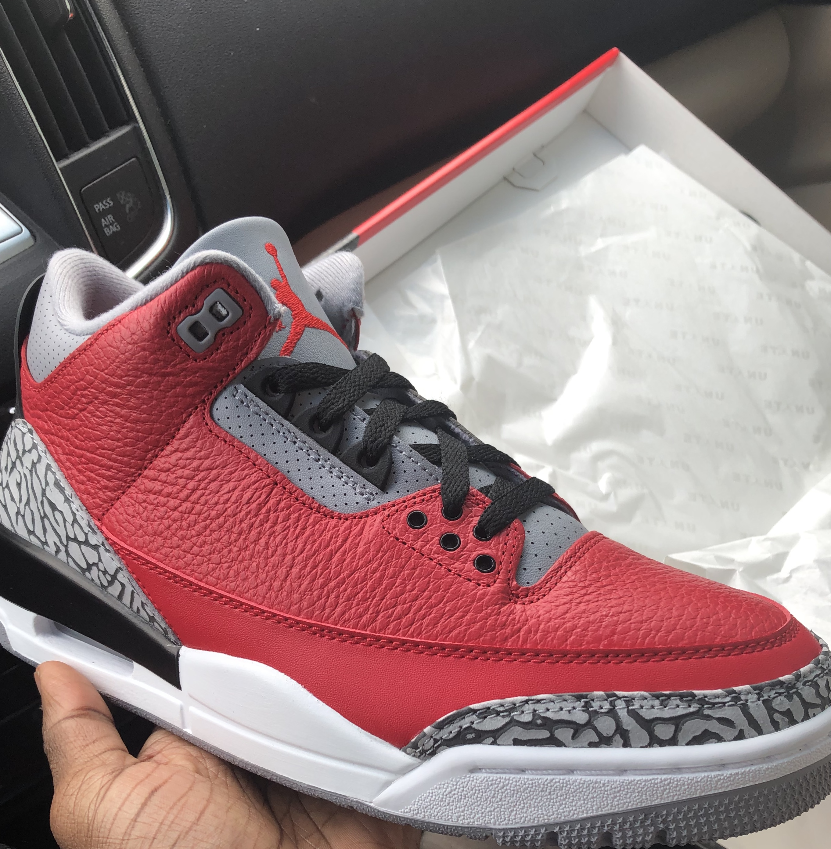 (Red Cement Colorway)